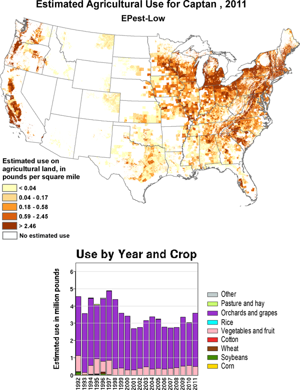 Captan map of use, USA, 2011 (estimated)